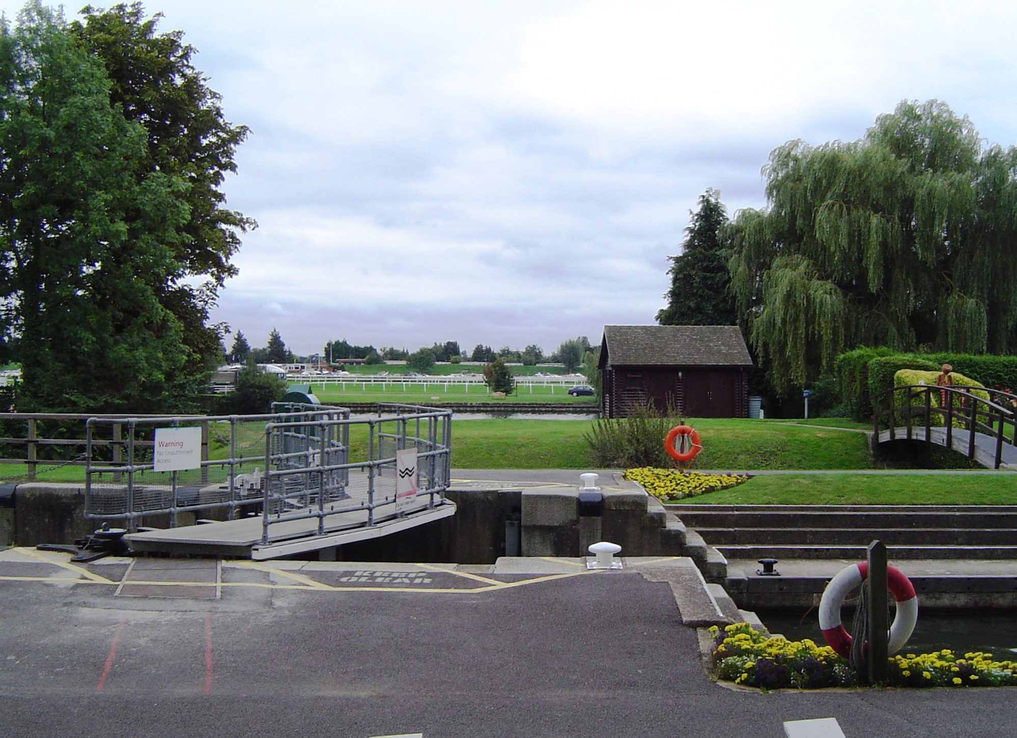 Boveney Lock River Thames near Windsor Racecourse